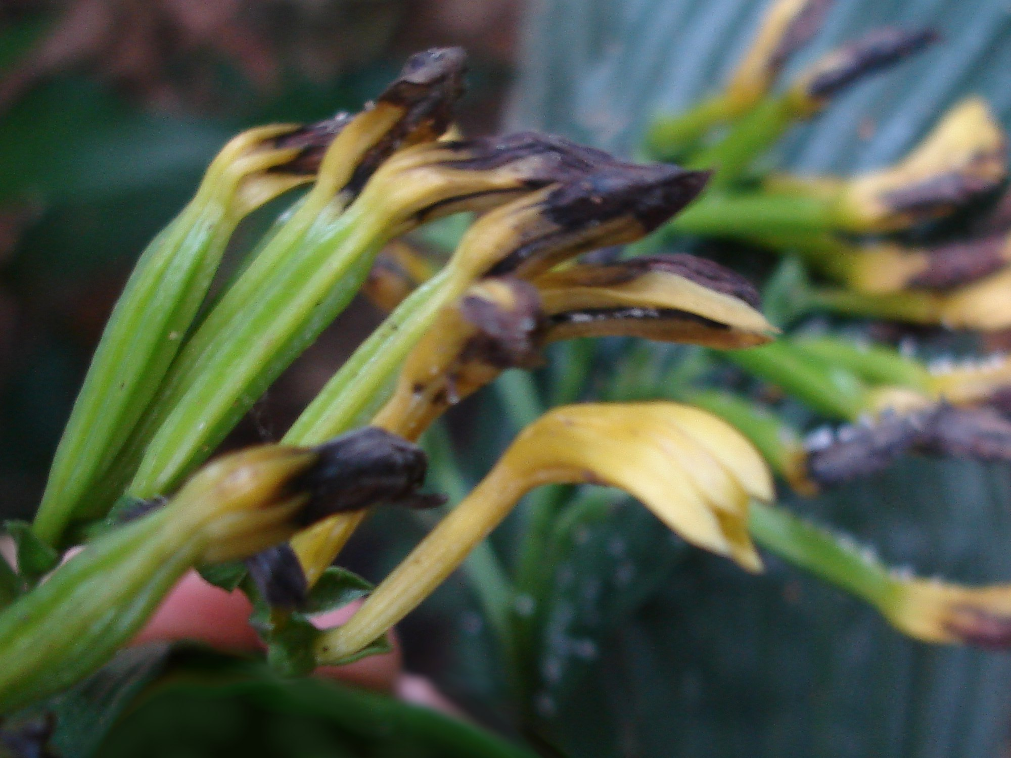 Corymborkis flava flowers